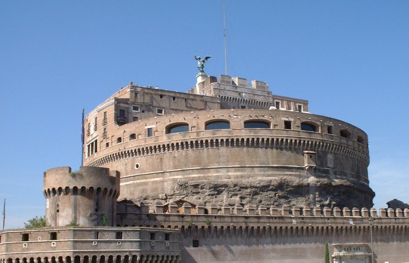 View of the Castel Sant'Angelo from the lungotevere Castello, Roma.